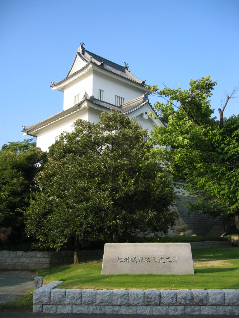 Koromo Catsle, Toyota, Aichi, Japan next to Toyota Munichipal Museum of Art